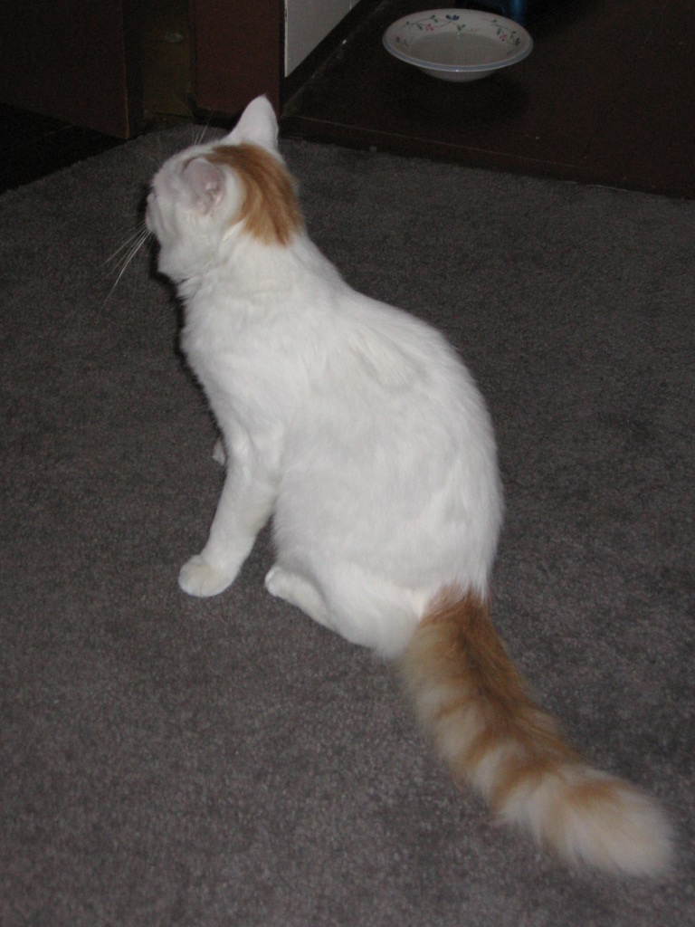 Backside of Turkish van cat with "ring" pattern